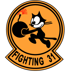 Insignia for the US Navy squadron VF-31 the fighting "Tomcatters". The second oldest Navy fighter squadron, tracing their history back to VF-1B Shooting Stars in July of 1935. The Tomcatters incorporated the character of Felix the Cat in their insignia. based on the 1948 design shown at